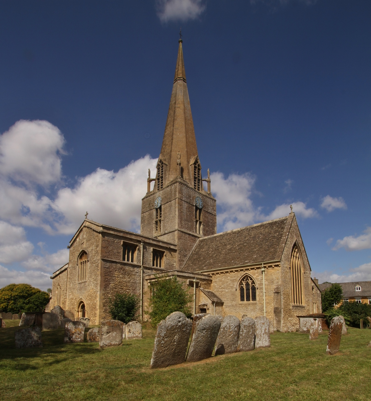 Parish church of St Mary the Virgin, Bampton, Oxfordshire, seen from the southeast